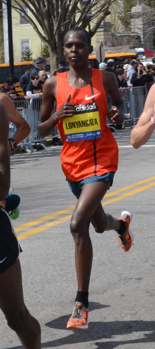 2014 Boston Marathon